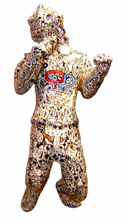 FIGURA 1